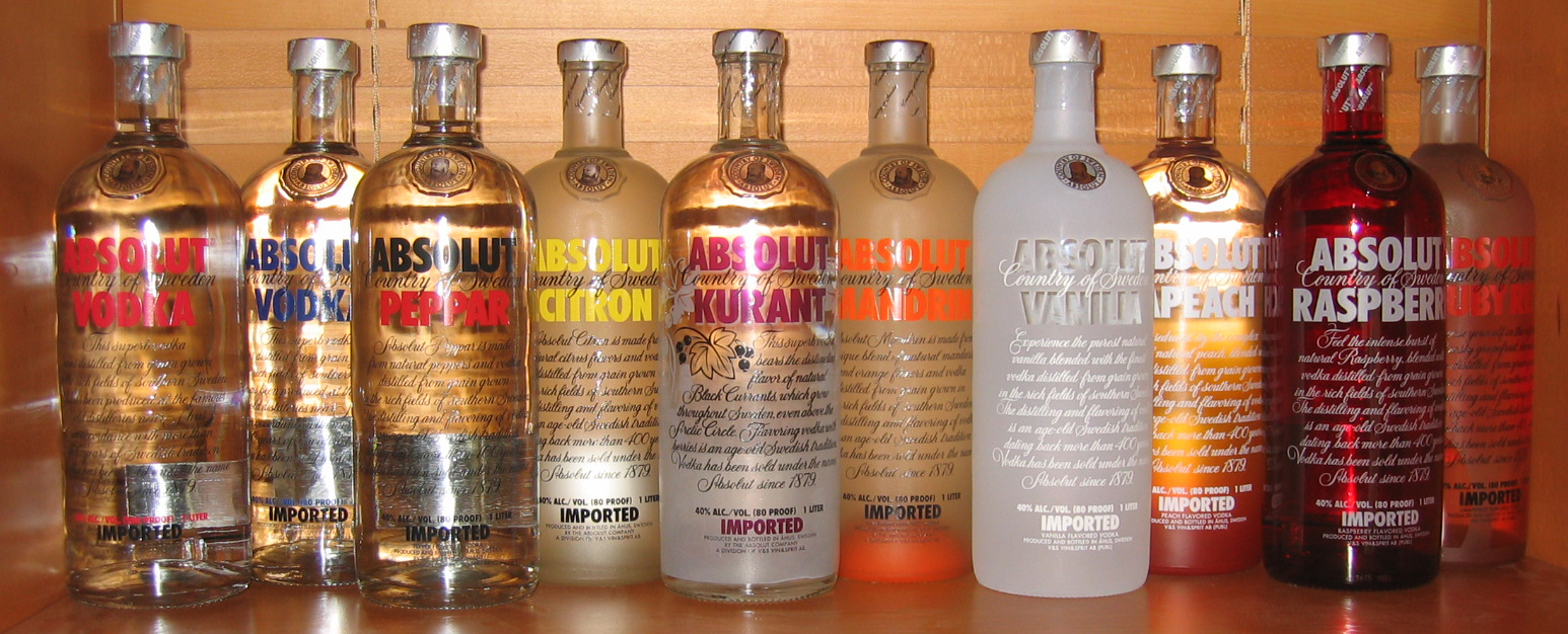 Ten bottles of Absolut Vodka.